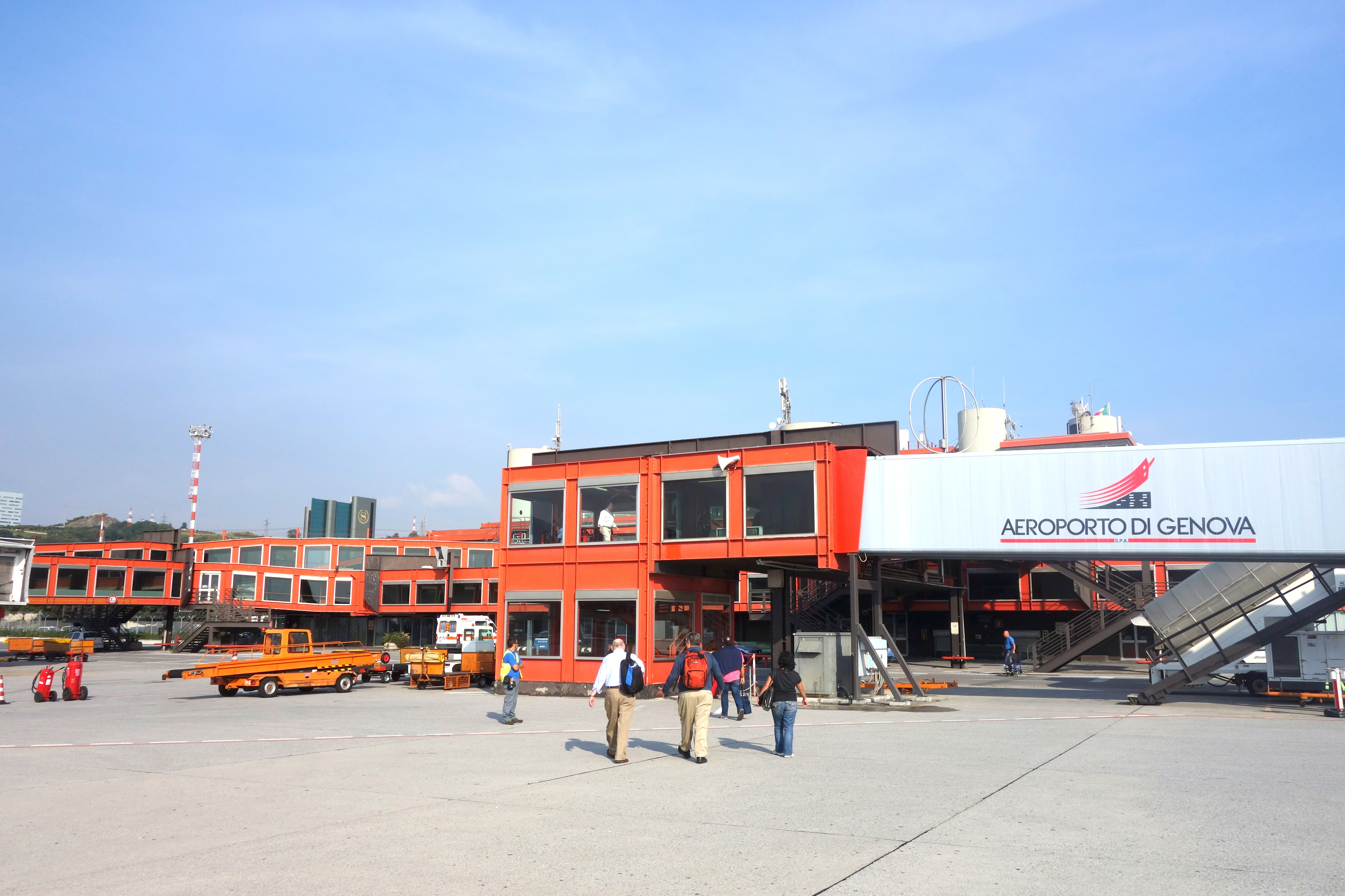 Genoa Cristoforo Colombo Airport - Genova, Italy.